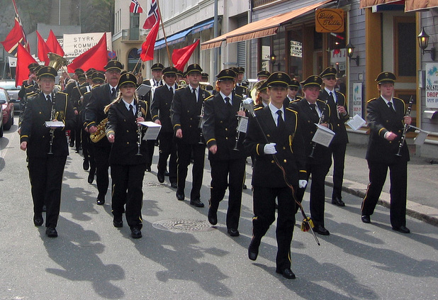 Arendal City Orchestra